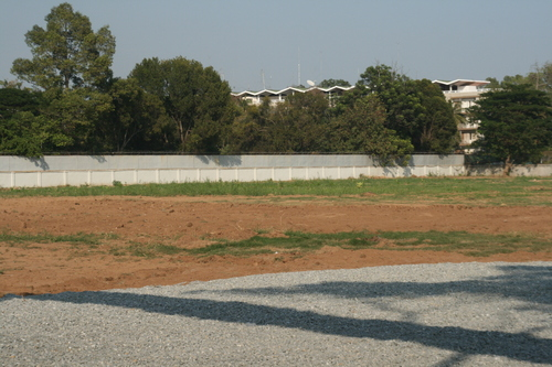 The "Soccer Field" in Phnom Penh, scene of Operation Eagle Pull, the US evacuation of Phnom Penh, 12 April 1975